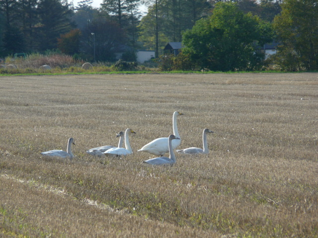 Whooper Swan family, Balinroich. Family groups of Whoopers arrive a few days later than the first adults. This year's flocks seem to have a good proportion of juveniles.